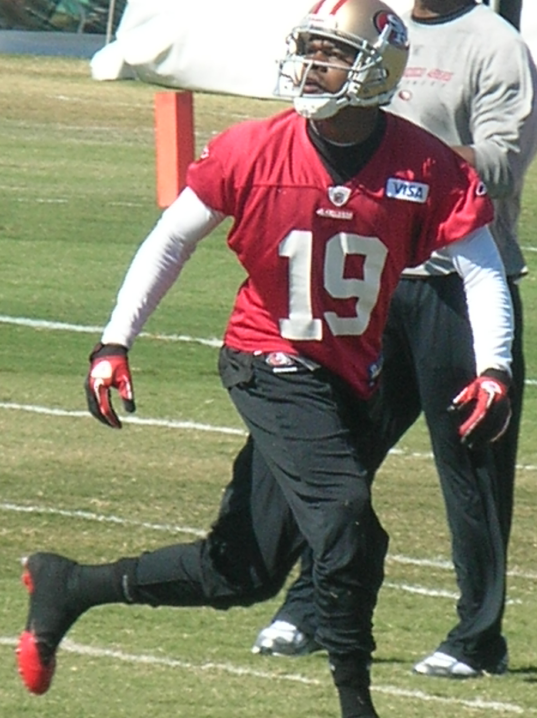 San Francisco 49ers wide receiver Ted Gin, Jr. at training camp in Santa Clara, California.